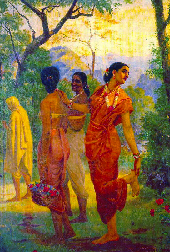 "Shakuntala looking back to glimpse Dushyanta"